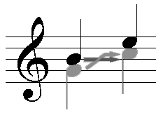 Two voices showing voice-overlap, forbidden or frowned upon in some styles